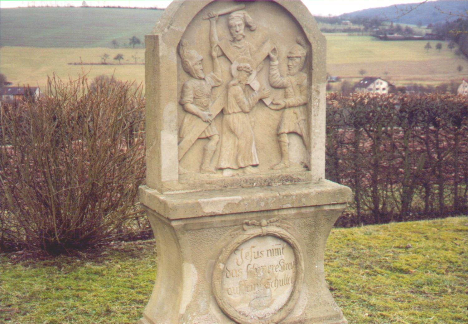 02nd Station of the Way of the Cross in Hausen, a quarter of the German spa town of Bad Kissingen in Lower Franconia (Bavaria).